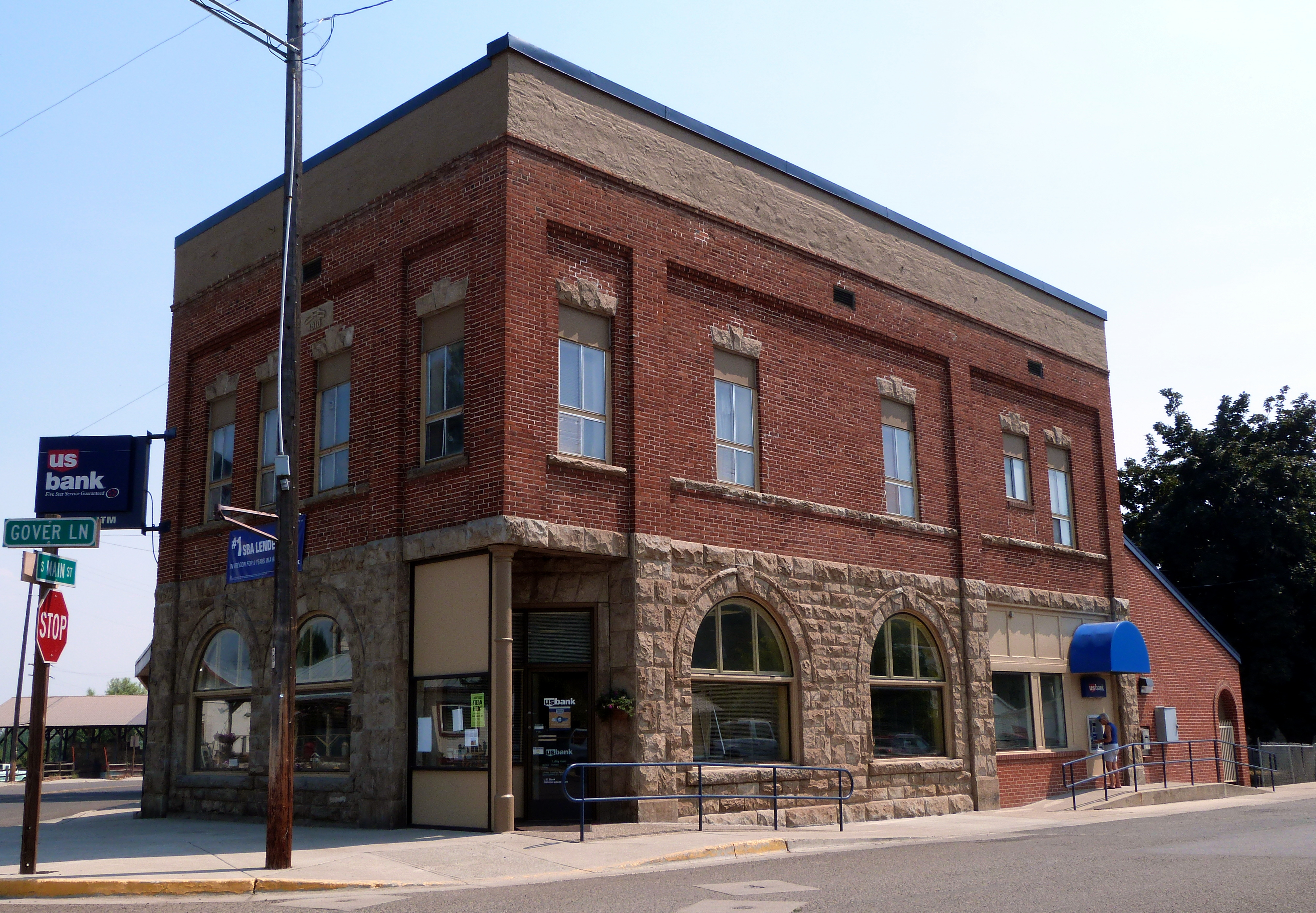 Building in downtown Halfway, Oregon, United States.